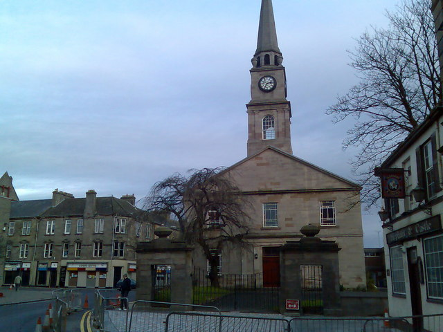 Facade and spire of Riverside Parish Church Viewed from High Street.